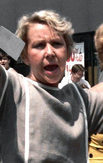 Former Chicago Mayor Jane Byrne, Chicago Gay Pride parade, June 1985